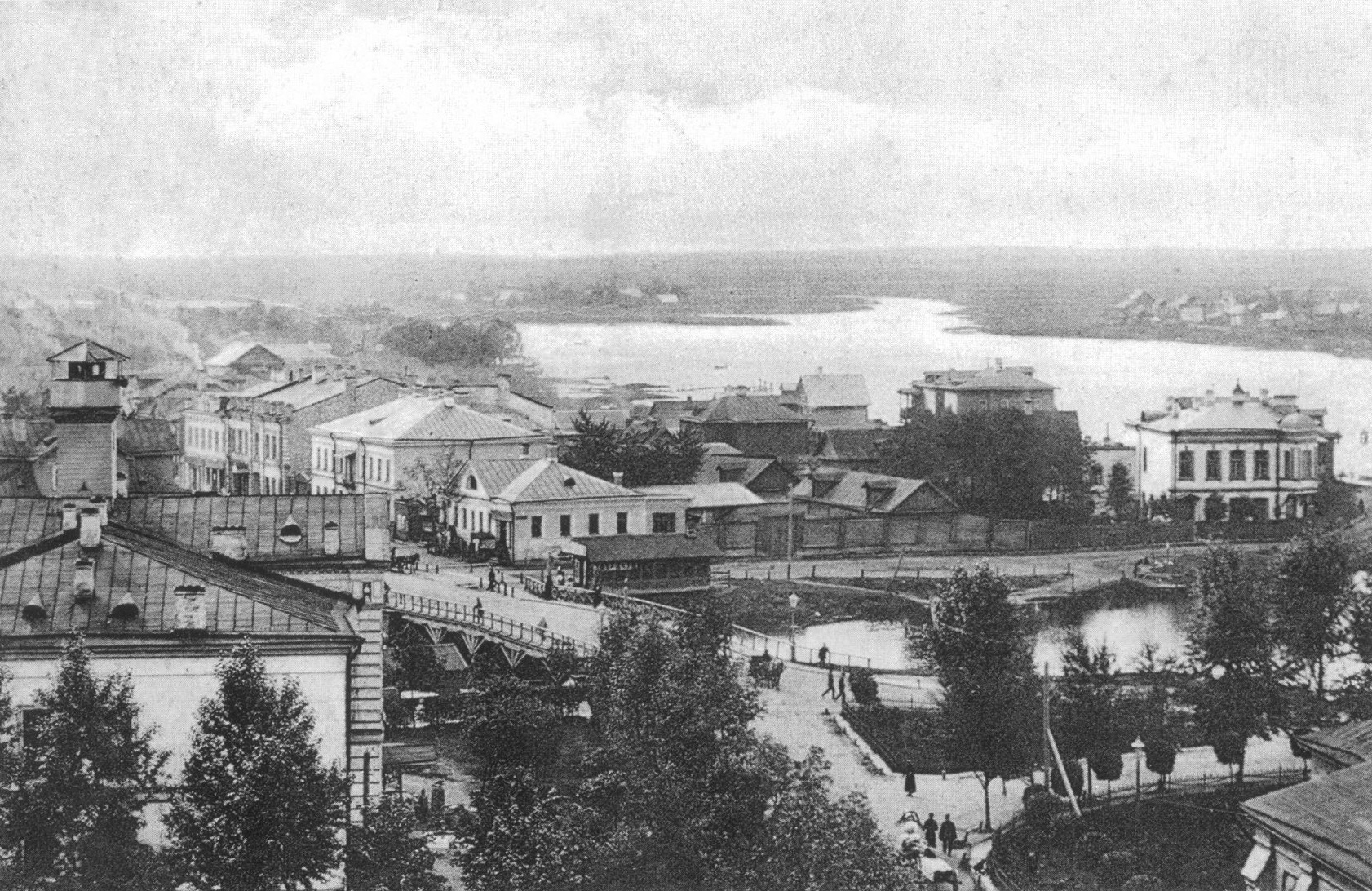 Kolpino (Russia), view from the top of the Holy Trinity Cathedral to Nikolskaya Street (nowadays Krasnaya). The second building over the bridge is a tavern (during the Soviet era Young Pioneers' House, later Municipal Council). In the background centre Finnish village Mokkala (nowadays Recreation Park).